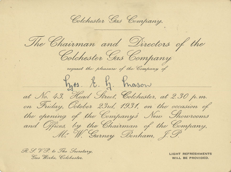 Bertha’s Invitation to the opening of the new Gas Showrooms showing her importance within the Colchester business community